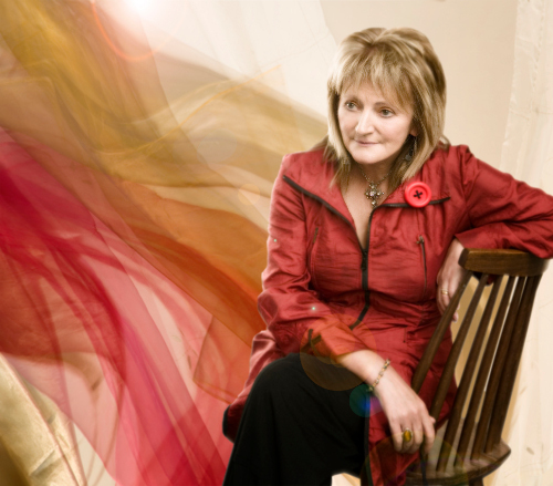 Photo of Irish singer and author Nóirín Ní Riain for subject article.